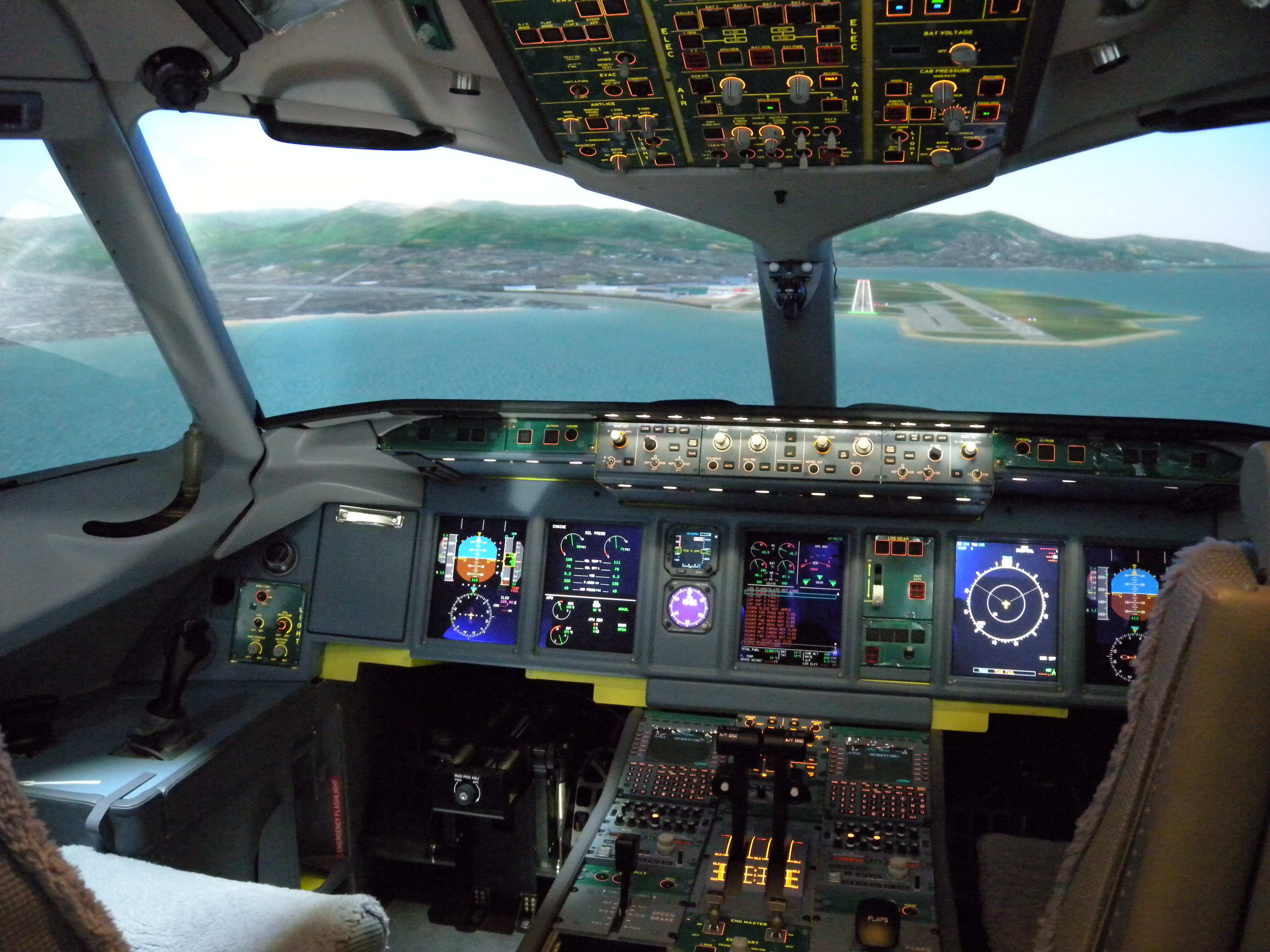 The Full Flight Simulator is manufactured by Thales Training & Simulation to support the SSJ100 Program